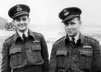 Molesworth, England. c. 1941-11. Portrait of Pilot Officer (PO) A. W. Doubleday, left, and PO W. L. Brill. Both were farmers from Wagga Wagga, NSW, and were original members of No. 460 Squadron RAAF, based at an RAF Station. They had parallel careers, won the DSO and DFC and subsquently commanded Lancaster squadrons in Bomber Command. Note: SUK14984, a duplicate of this image at the Australian War Memorial, is captioned Molesworth, Yorkshire, England. C. 1942. Pilot Officer (PO) A. W. Doubleday, left, and PO W. Brill, both pilots of No. 460 Squadron RAAF at RAF Station Breighton.